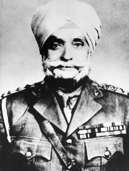 Sepoy Ishar Singh, 28th Punjab Regiment, Indian Army, awarded the Victoria Cross, Wazirstan, North-west India, 10 April 1921